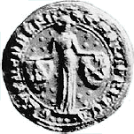 "+S Margerete d[e] Grueneberg." ("Seal of Margaretha of Grünenberg".) Standing female figure, in the right a hatchment with the Grünenberg six-mountain, in the left a hatchment with the coat of arms of Kien. Public Records Office Luzern.